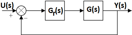 locked loop control